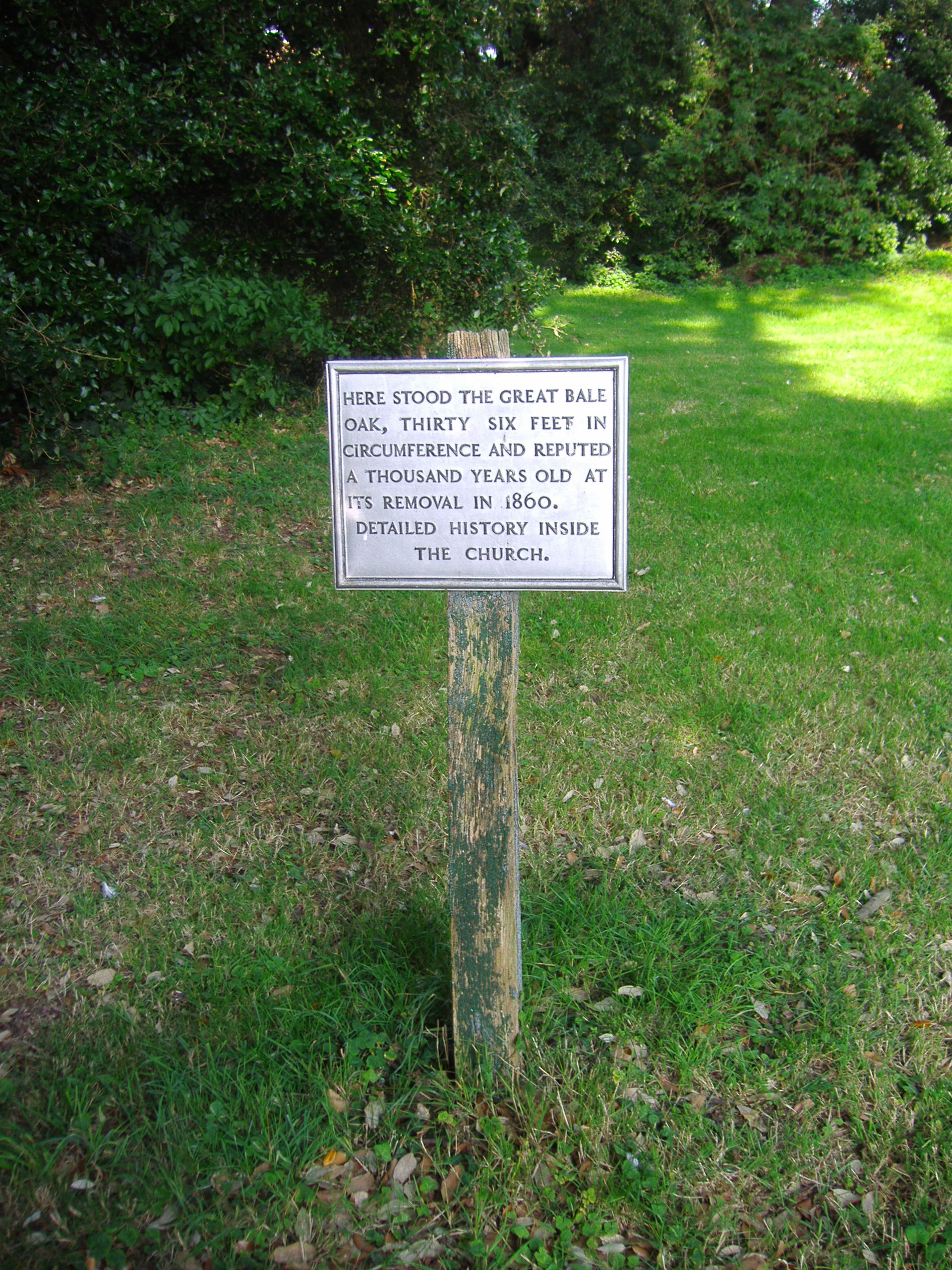 This notice marks the site of the Ancient Bale Oak tree